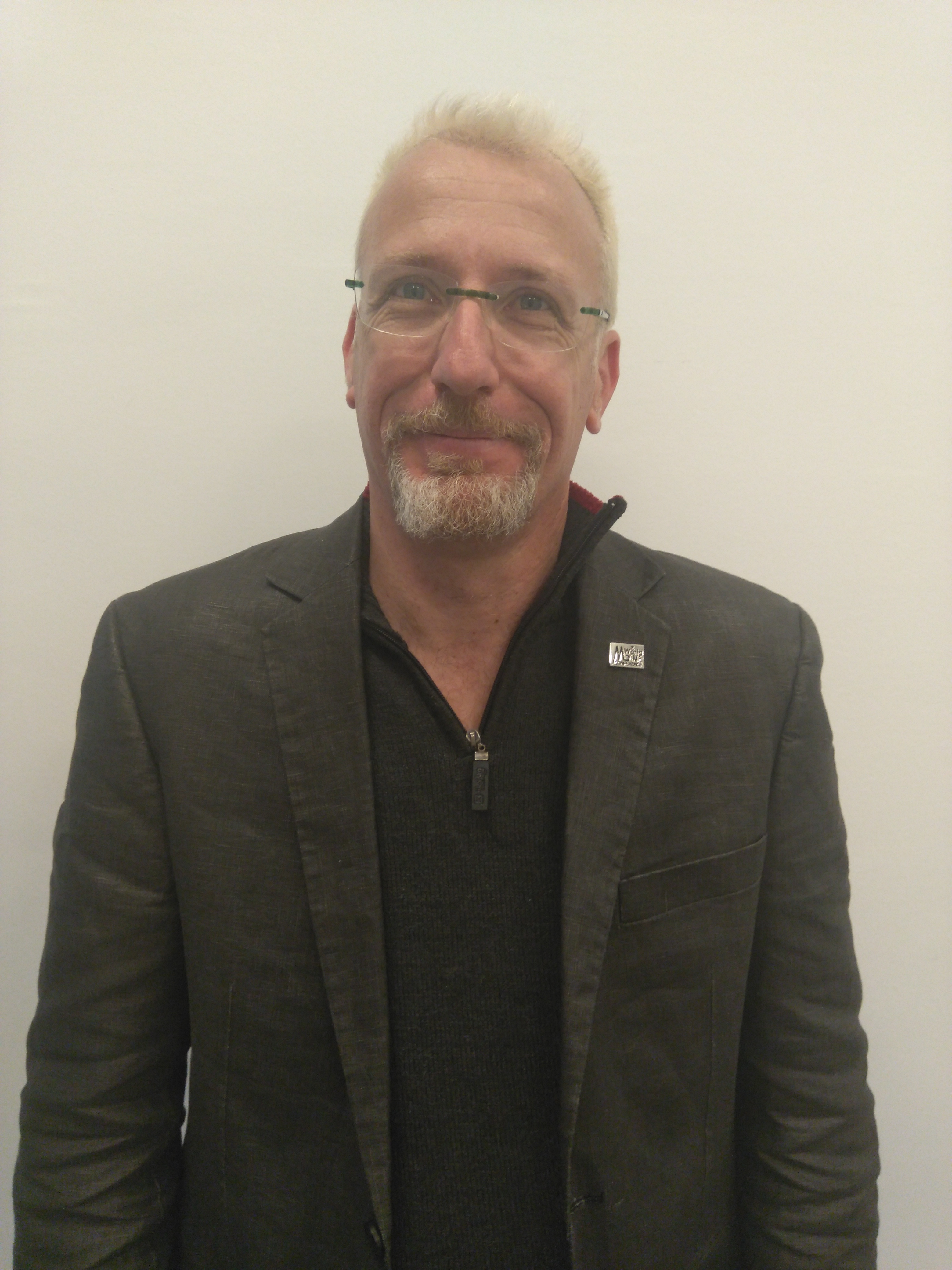 Ofer Blum, Israeli mime artist in Belgrade, during the first world mime conference.